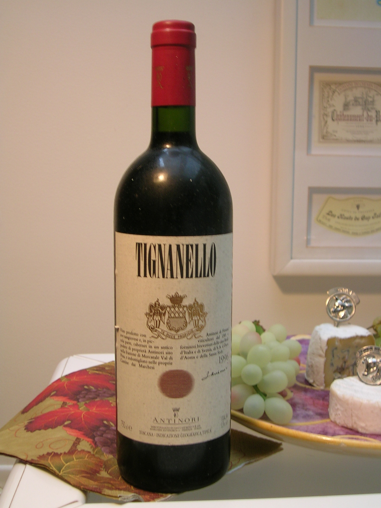 Antinori's wine Tignanello from Tuscany - 1996 - Italy